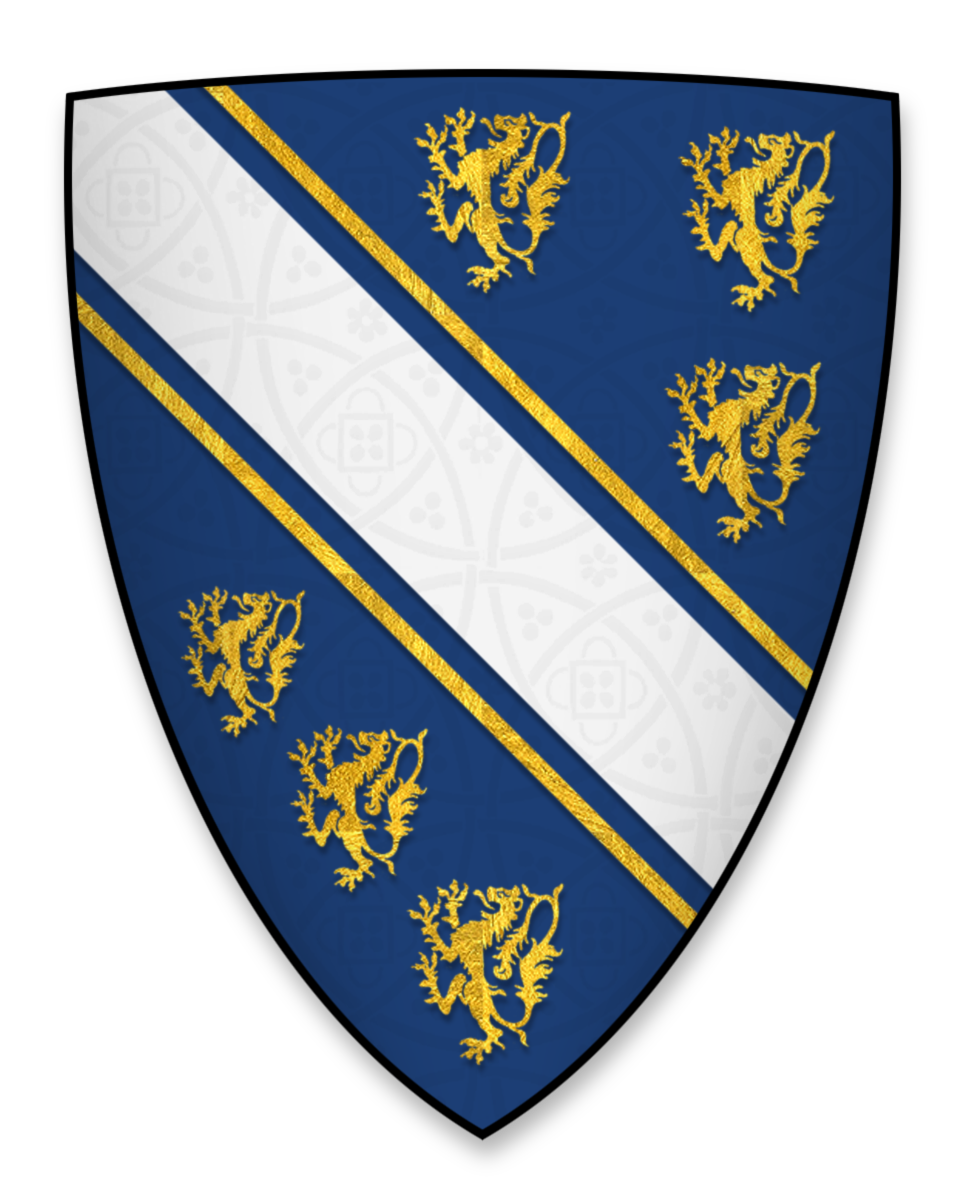 Coat of arms of Henry de Bohun, Earl of Hereford